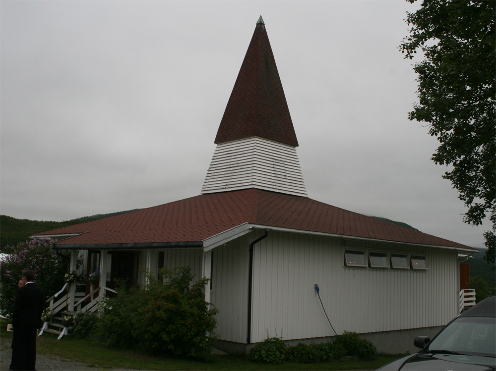 Lysbotn chapel, a minor church in Lenvik at Senja (Norway)